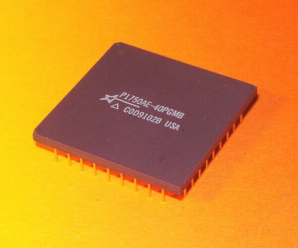 MIL STD P1750AE40PGME